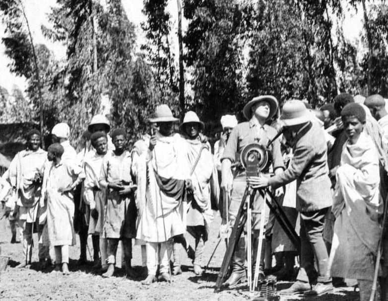 Expedition member (Cutting?) explaining the movie camera to a large group of men. Shows the Akeley "pancake" camera. 1927. Name of Expedition: Daily News Abyssinian Expedition Participants: Wilfred Osgood, Louis Agassiz Fuertes, C. Suydam Cutting, Jack Baum, Alfred M. Bailey Expedition Start Date: September 7, 1926 Expedition End Date: May 20, 1927 Purpose or Aims: Zoology Mammals and Birds Location: Africa, Ethiopia [Abyssinia] Original material: 4x5 inch interpositive film Digital Identifier: CSZ56643 Learn more about The Field Museum's Library Photo Archives.